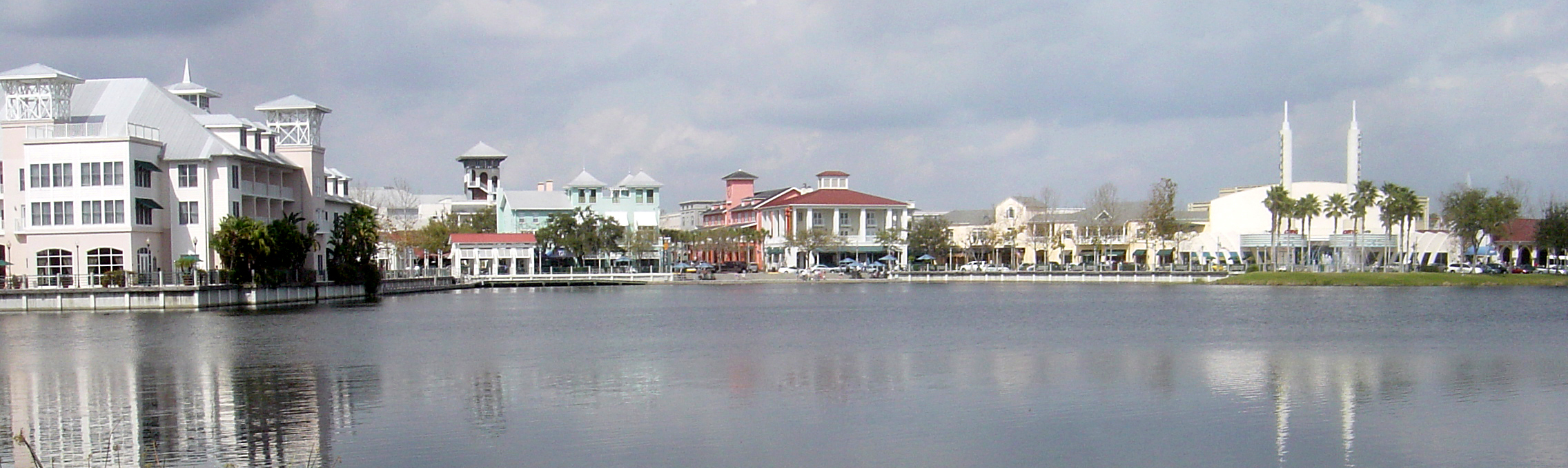 A view of downtown Celebration, Florida: the city was planned by The Walt Disney Company. Photo taken by Bobak Ha'Eri. February 23, 2006. Please observe license and properly cite in use outside Wikipedia.